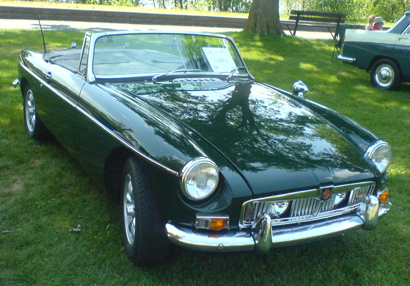 1966 MG MGB photographed in Ottawa, Ontario, Canada at the 2010 Ottawa British Auto Show.